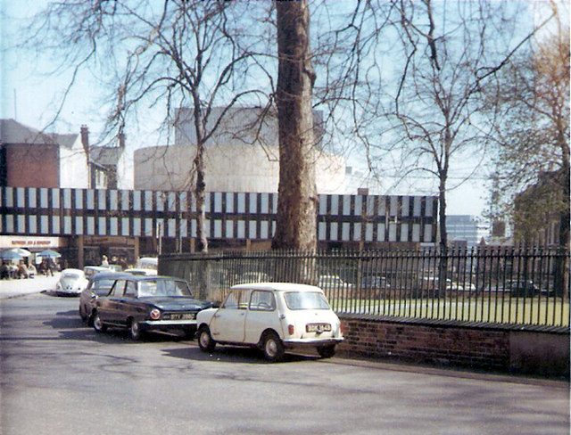 Nottingham Playhouse, 1967. The Playhouse was designed by Peter Moro and opened in 1963. Previously the company had used a former cinema (still there 790013 ) on the corner of Goldsmith Street. If, like me, you were an A-level English student in the mid sixties, the Playhouse was the place to be: for three-and-six (17.5p), student members could see John Neville as Richard II, Judi Dench as St Joan and playing opposite Edward Woodward in "Private Lives", and a whole host of other wonderful things - one heck of an education, subsidised by an enlightened city council. This photo is taken across Wellington Circus and also shows what might have been Nottingham's first pavement cafe. A VW Beetle, a Ford Cortina and a Mini complete a real sixties scene. Compare this photograph with my 2009 picture 1592180.